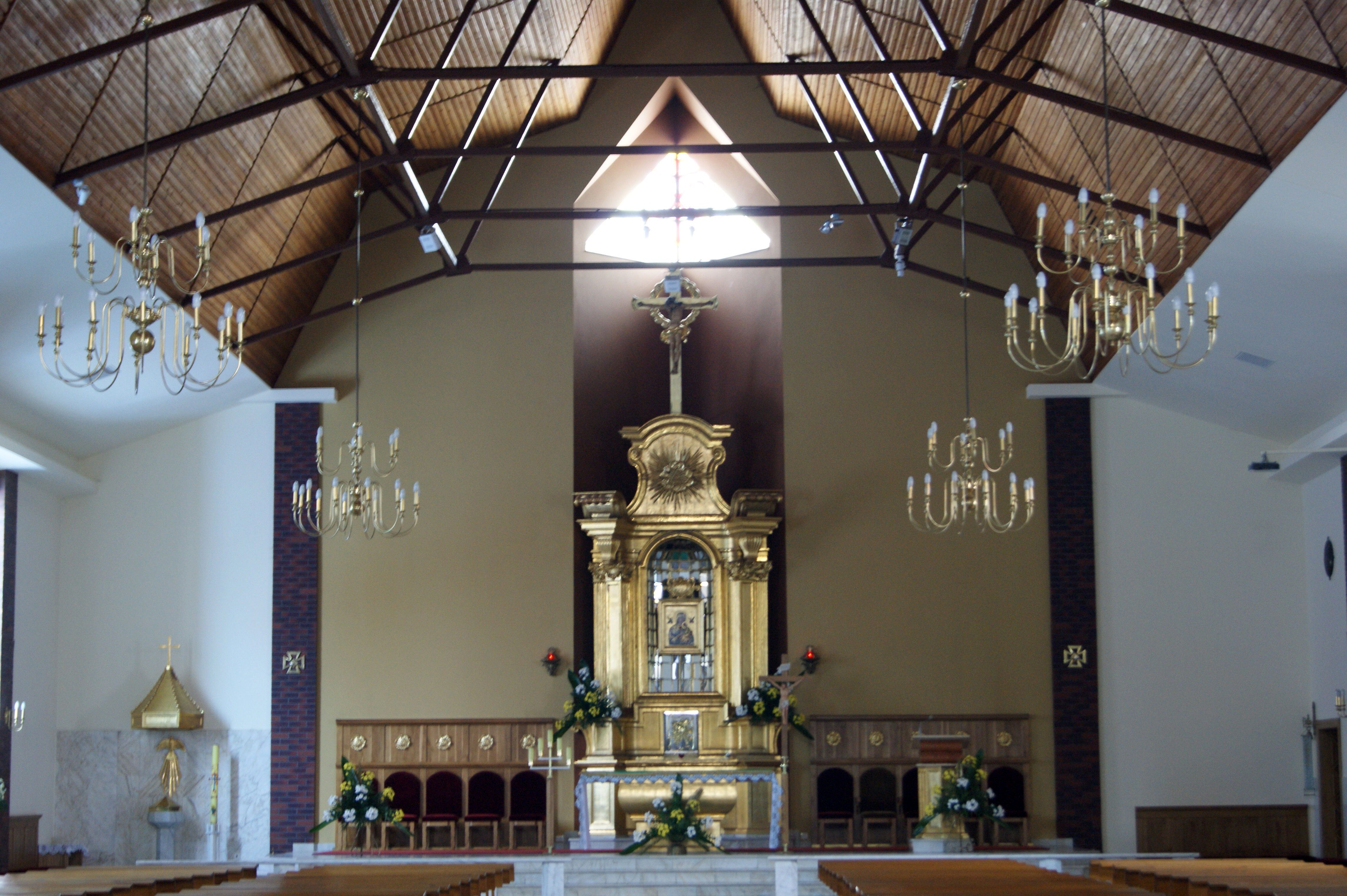 Our Lady of Perpetual Help Church (inside), 33 osiedle Bohaterow Wrzesnia,Nowa Huta,Krakow,Poland